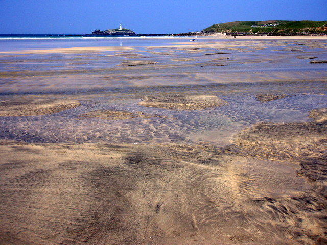 Sands at Gwithian. Just by where the Red River runs across the sands to the sea, Godrevy lighthouse in the far distance. Taken at low tide.